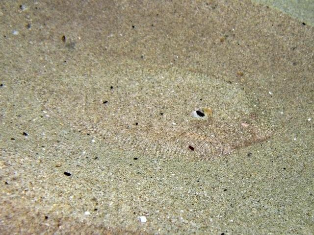 Pegusa nasuta photographed in Crete, Greece.